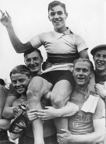 Dutch cyclist Arie van Vliet (1916-2001) chaired after becoming world champion in Zürich, 1936.